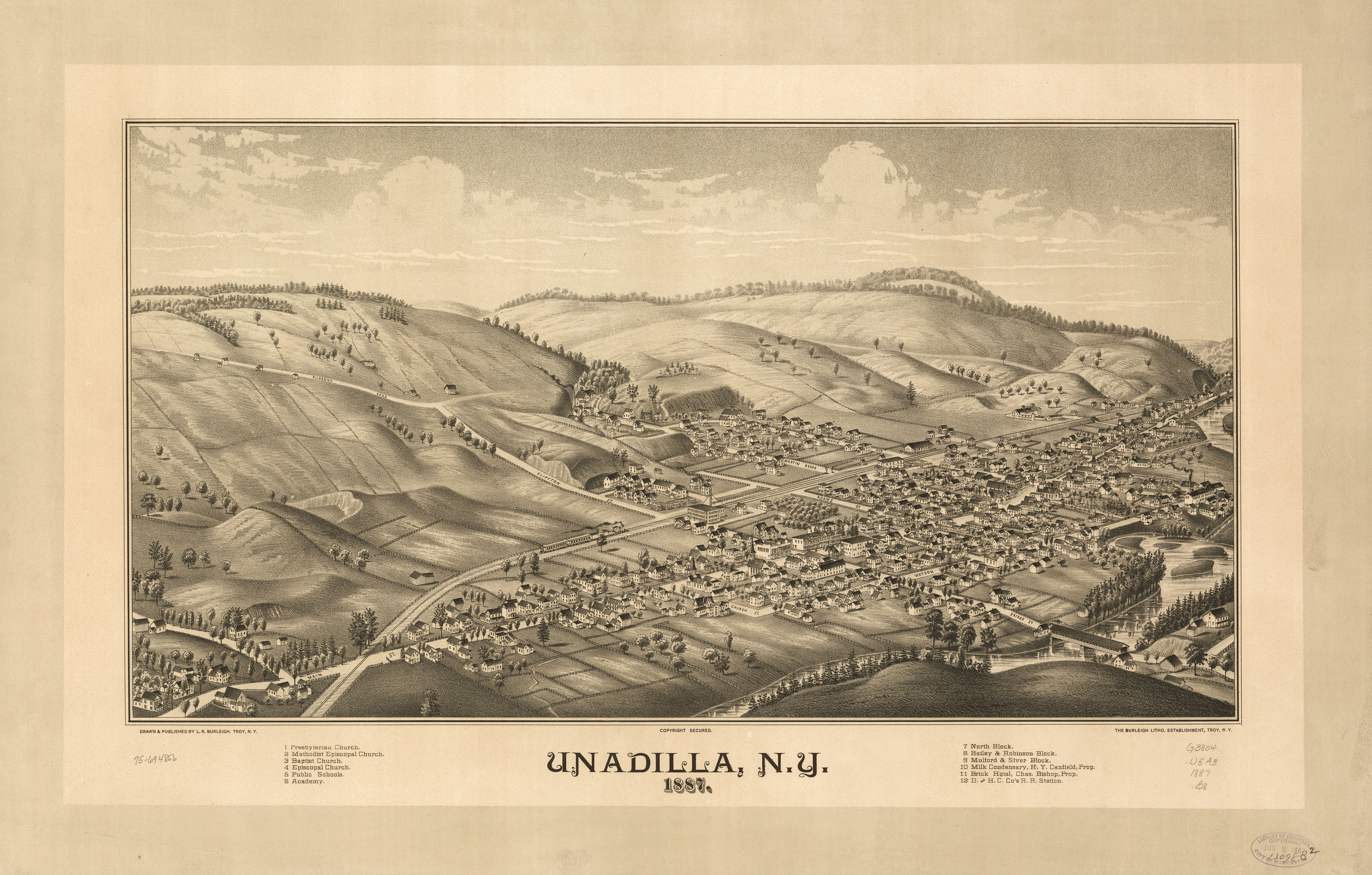 Perspective map not drawn to scale. Bird's-eye-view. LC Panoramic maps (2nd ed.), 642 Available also through the Library of Congress Web site as a raster image. Indexed for points of interest. AACR2